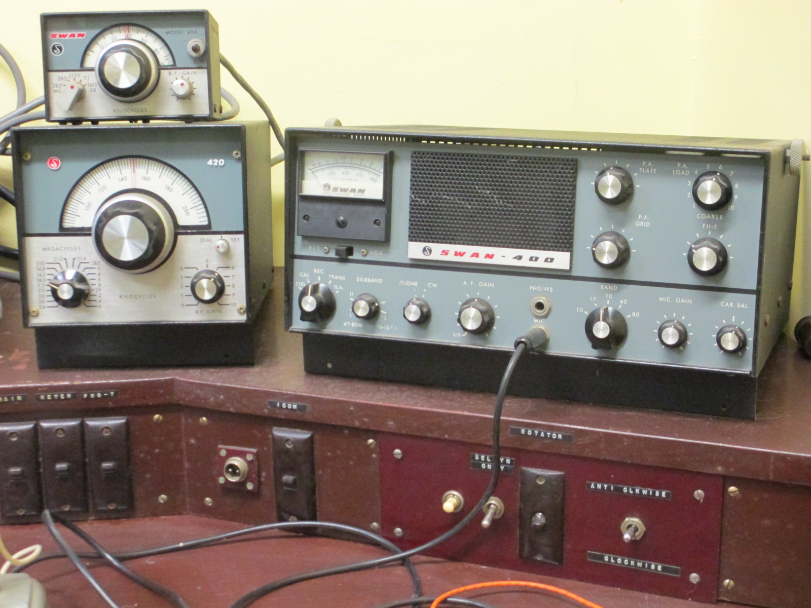 Swan Electronics Swan 400 HF tranceiver (IMG_2231)